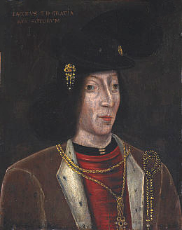 Posthumous portrait of James III of Scotland; oil on panel